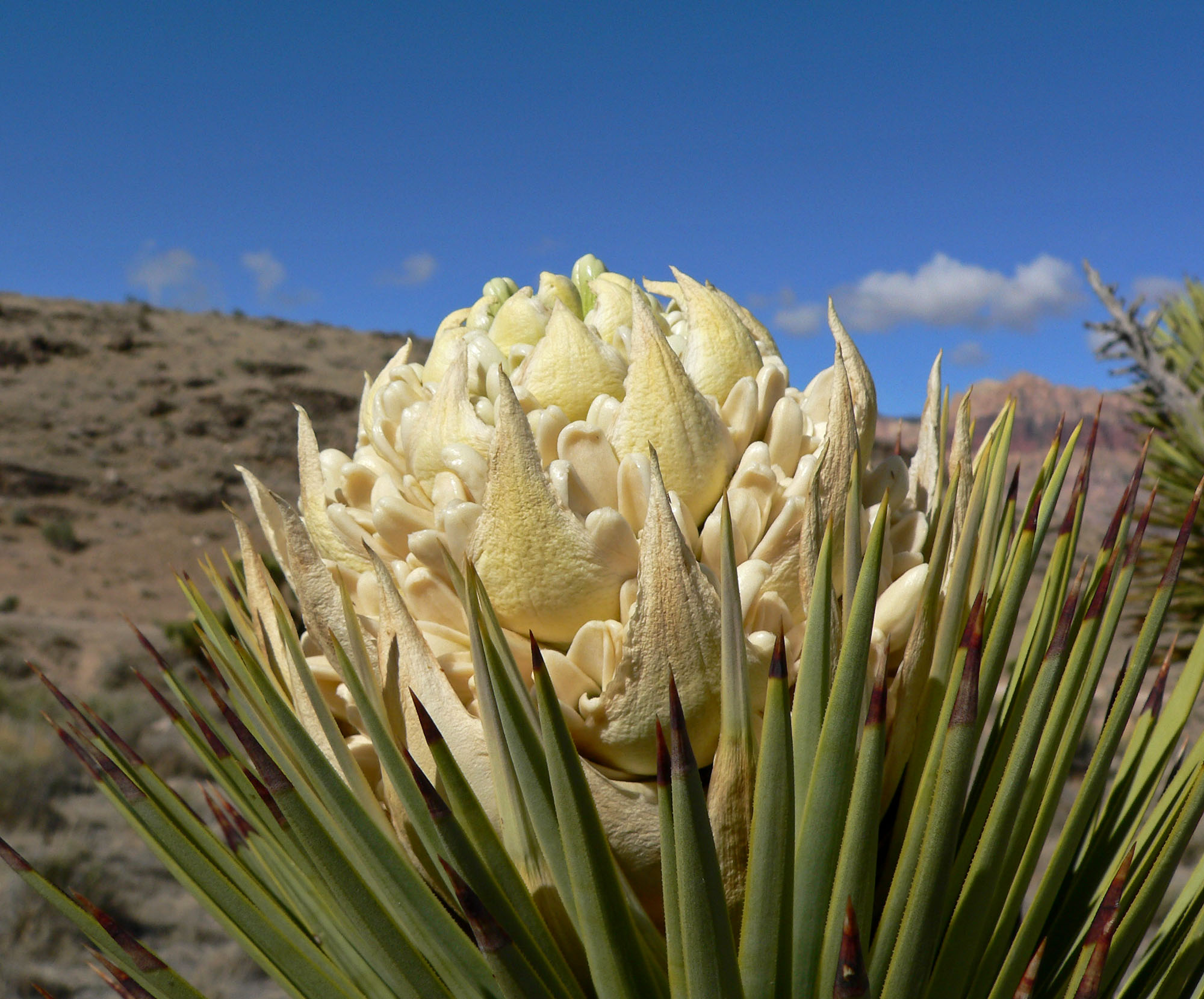 Yucca brevifolia developing bloom on Blue Diamond Hill, Red Rock Canyon, Spring Mountains, southern Nevada